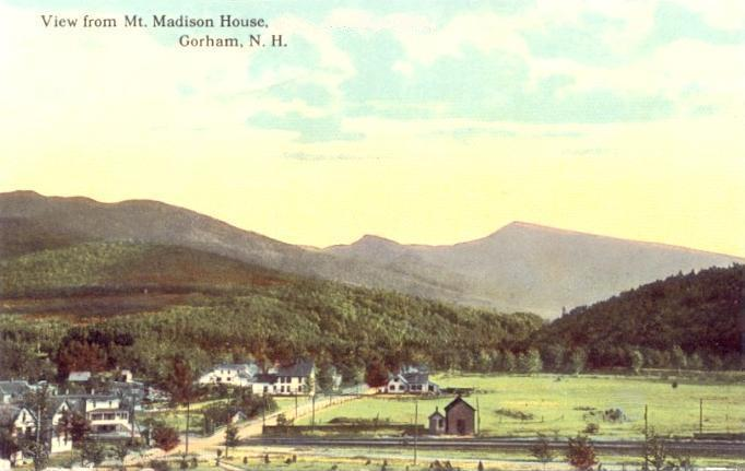 View from Mount Madison House, Gorham, NH; from a c. 1912 postcard.